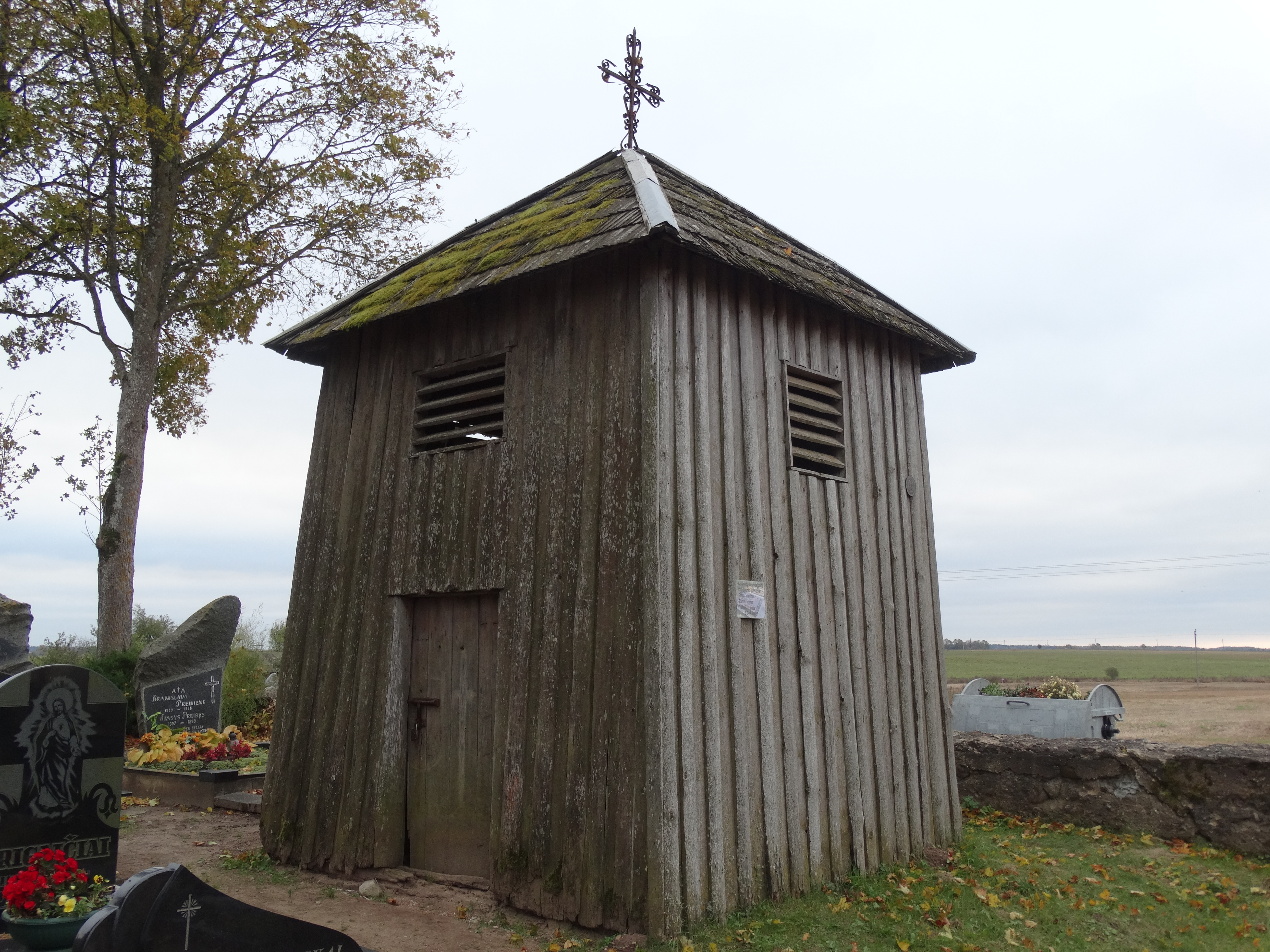 Cemetery belfry in Gargždelė, Kretinga District, Lithuania